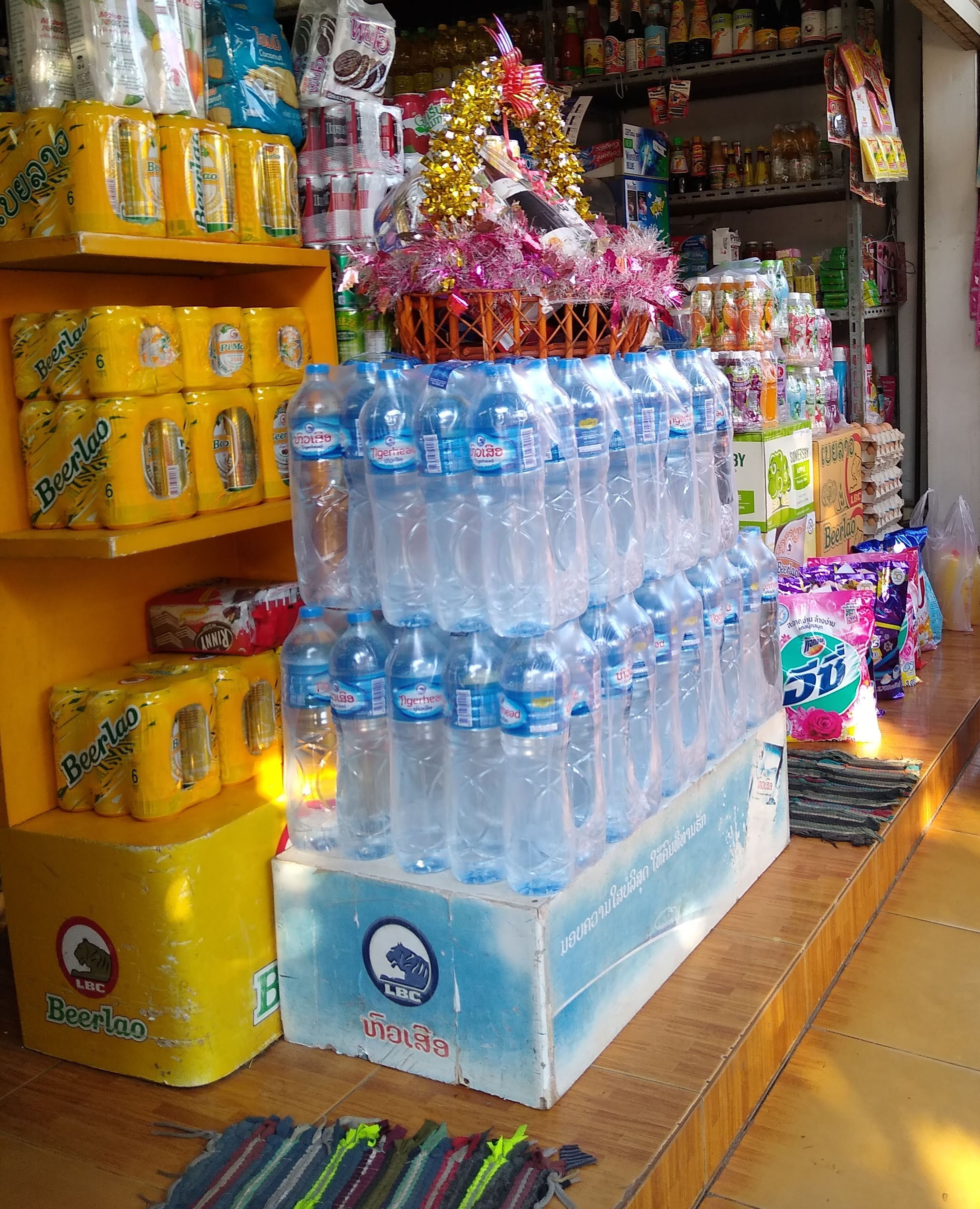 Bottles of Tigerhead water and cans of Beerlao beer for sale at a small shop in Vientiane.